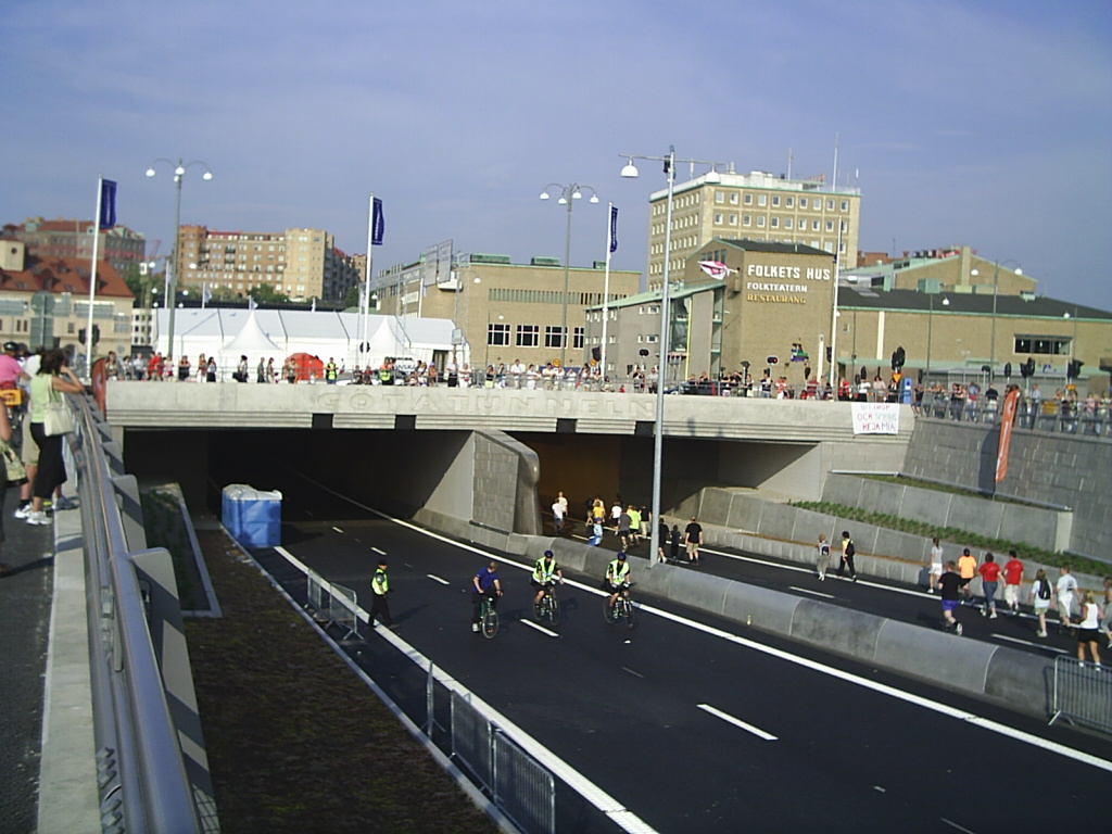 The tunnel, "Götatunneln" in Gothenburg, Sweden was first opened June 17 2006 and a foot race was arranged through the tunnel.